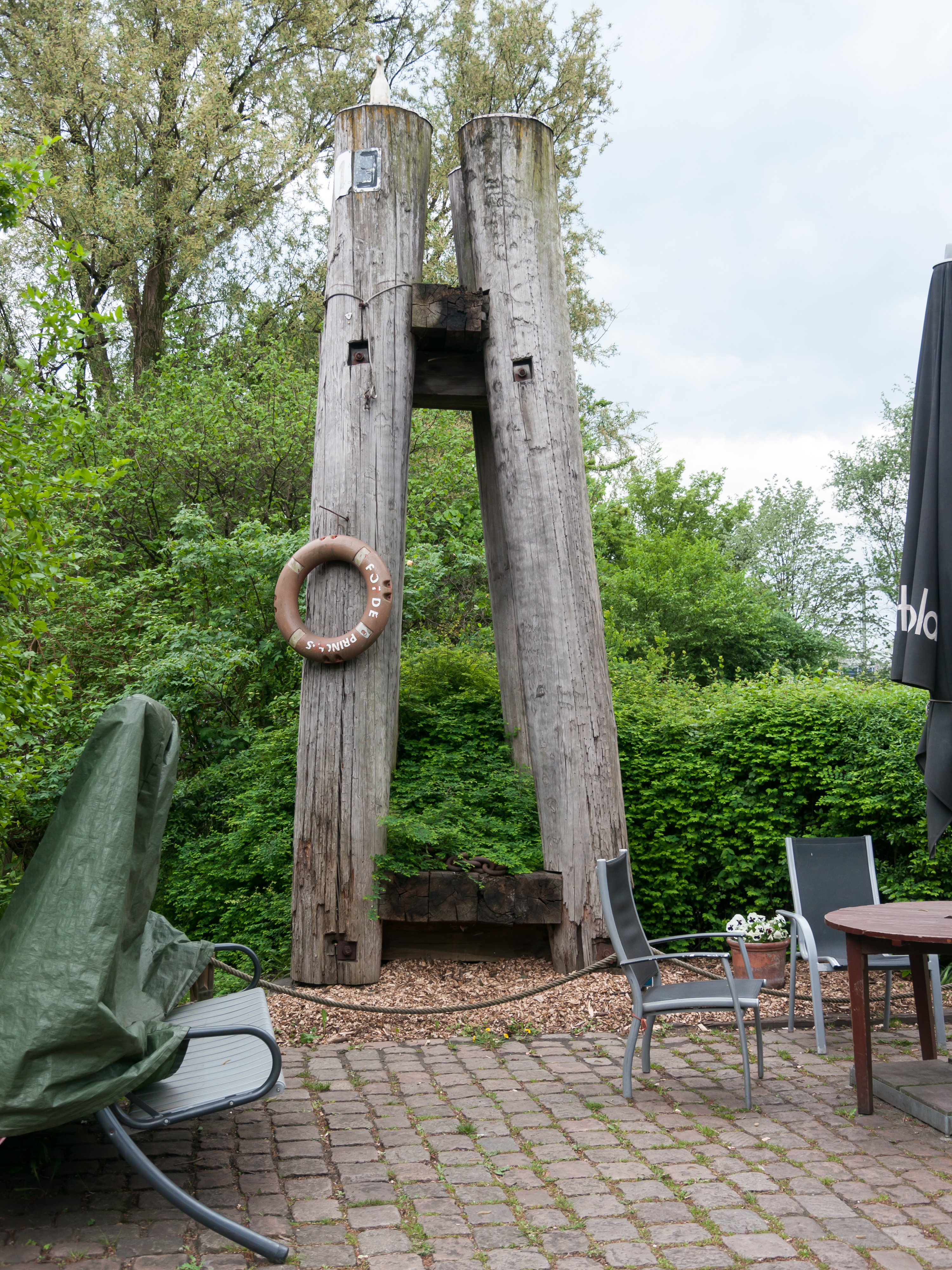 Wikipedia Ahoi in Hamburg 2019